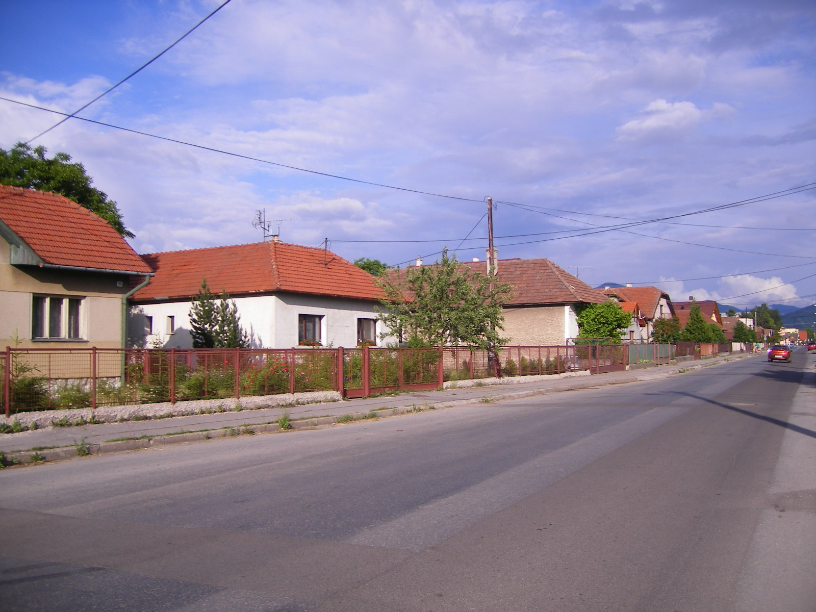 Žabokreky - street view